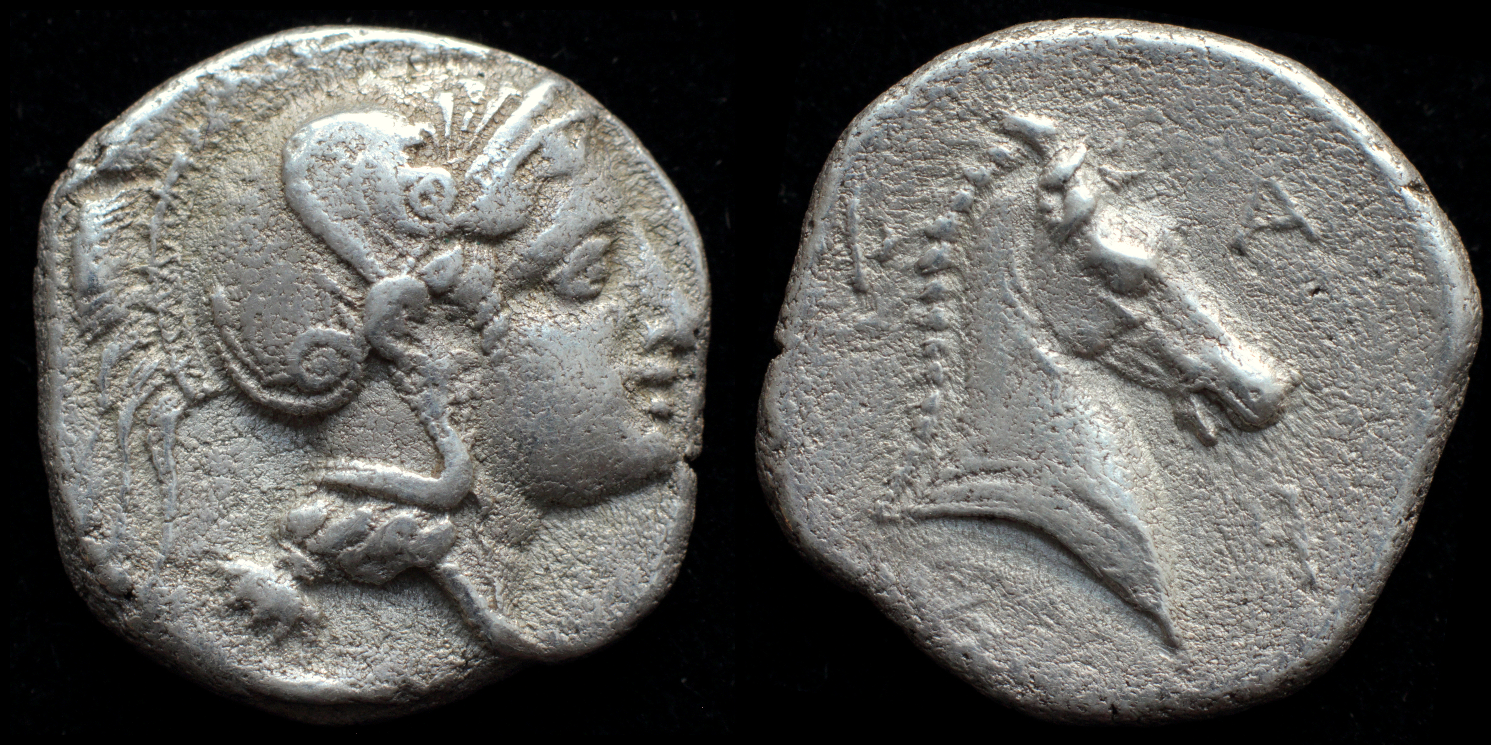 year: 450-400 BC obverse: helmeted head of Athena right reverse: head of horse right legend: Φ A / P Σ references: Lavva 75 (V38/R44) weight: 2,87g